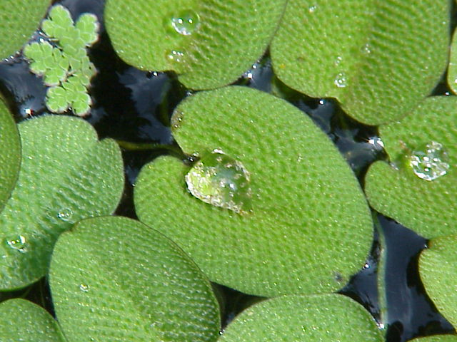 Species: 'Salvinia minima; Identified by Le.Loup.Gris (talk) 16:16, 10 September 2011 (UTC). Family: Image No. 1